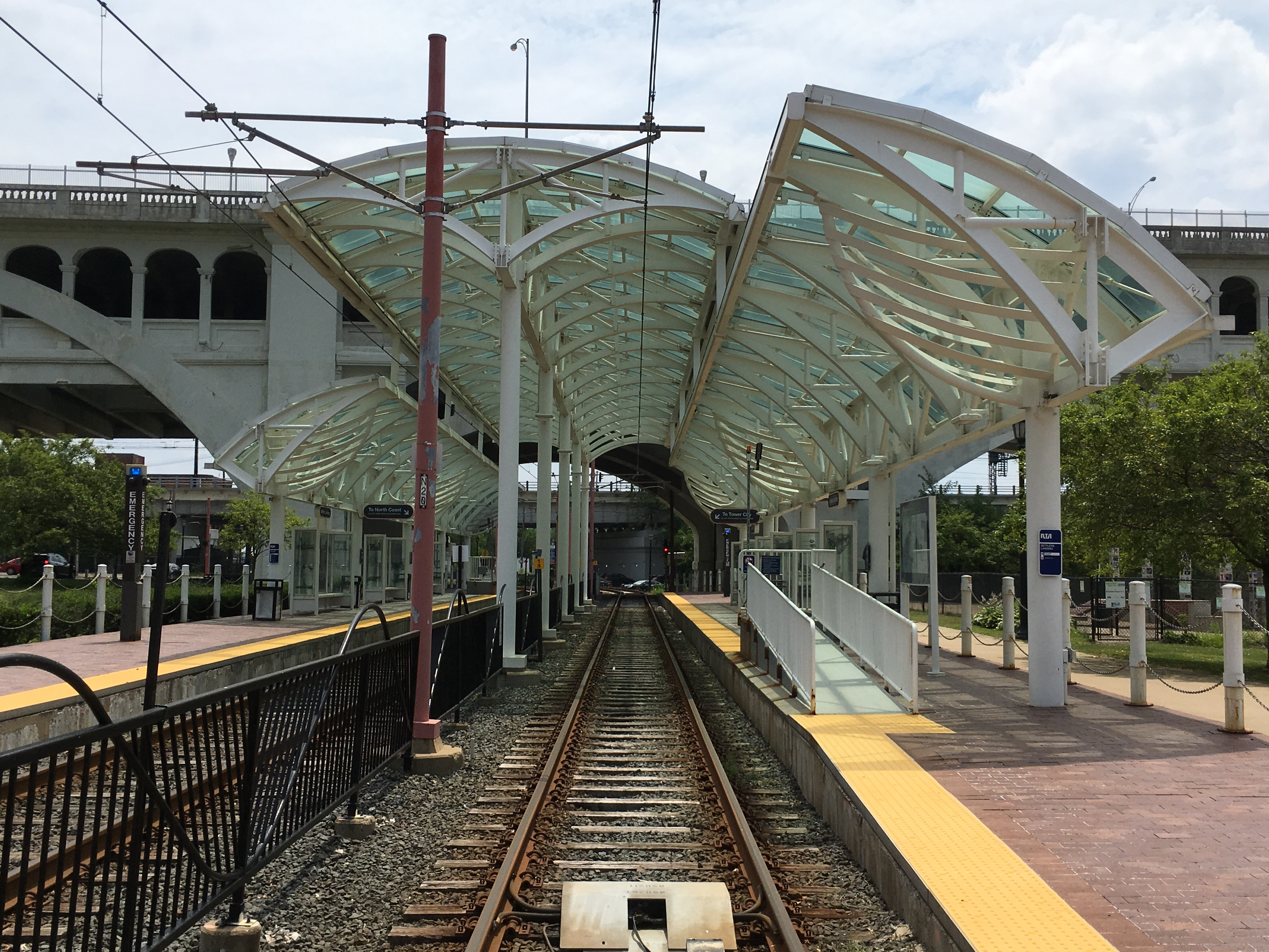 RTA station - July 14th 2018